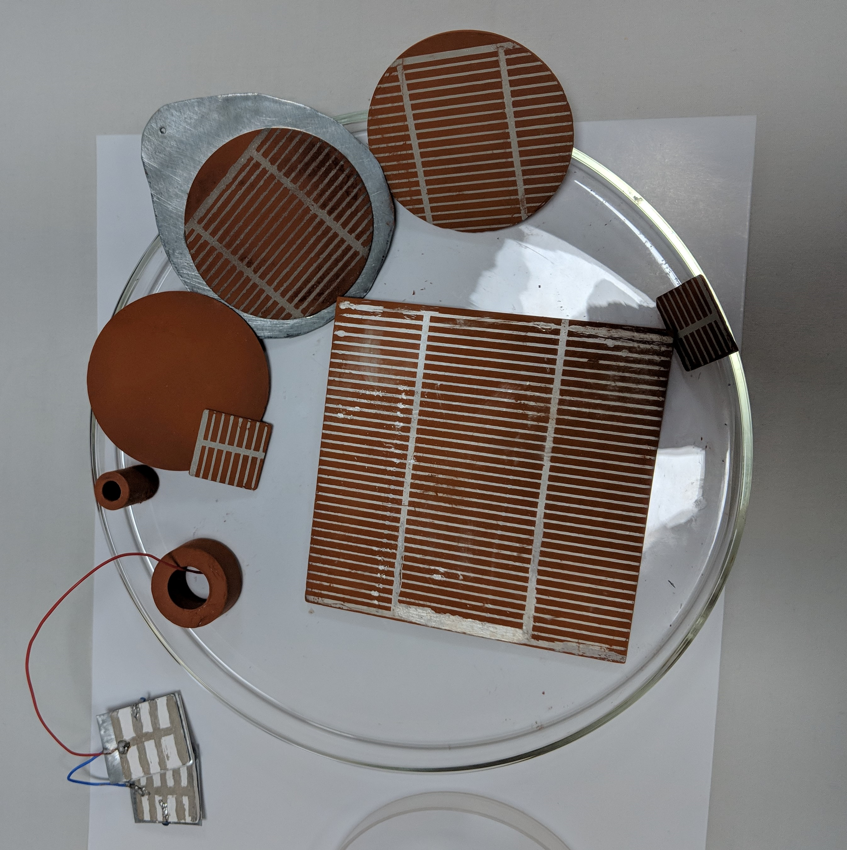 Hydroelectric Cell - Hydroelectric cell (HEC) is a primary source of green energy device that generates electricity by dissociating water molecules on its surface.